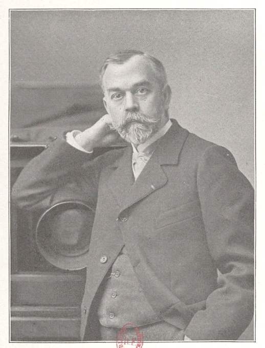 Gaston Braun, né en décembre 1845, éditeur-photographe... In: La Marmite en 1900, Paris.